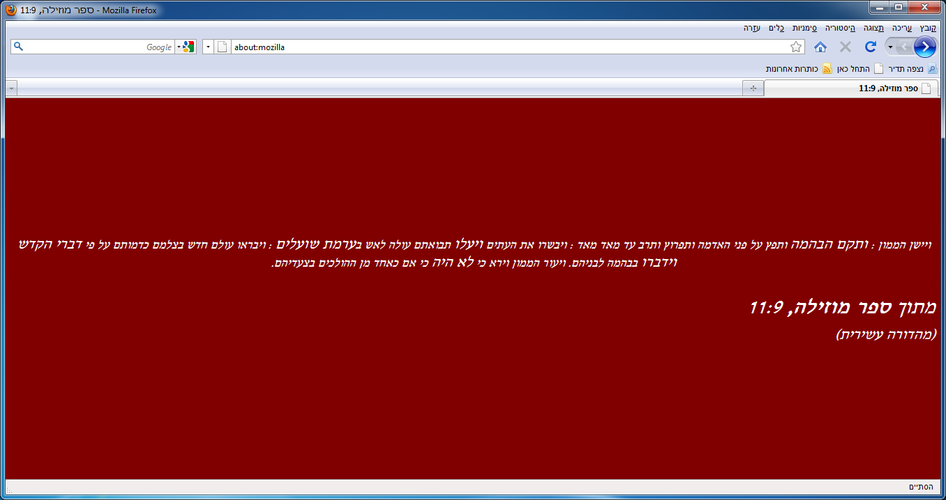 The Book of Mozilla in Mozilla Firefox 3.5.19 in Hebrew